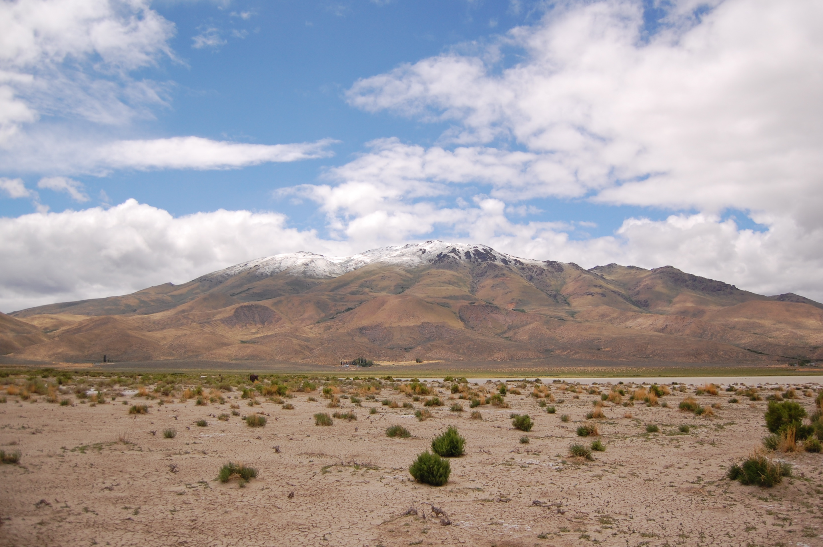 Pueblo Mountain 8,632 ft (2,631 m) — highest point of the Pueblo Mountains range, located in the Great Basin region of Oregon Seen from the vicinity of Tumtum Lake, south of Fields in Harney County, southeastern Oregon.